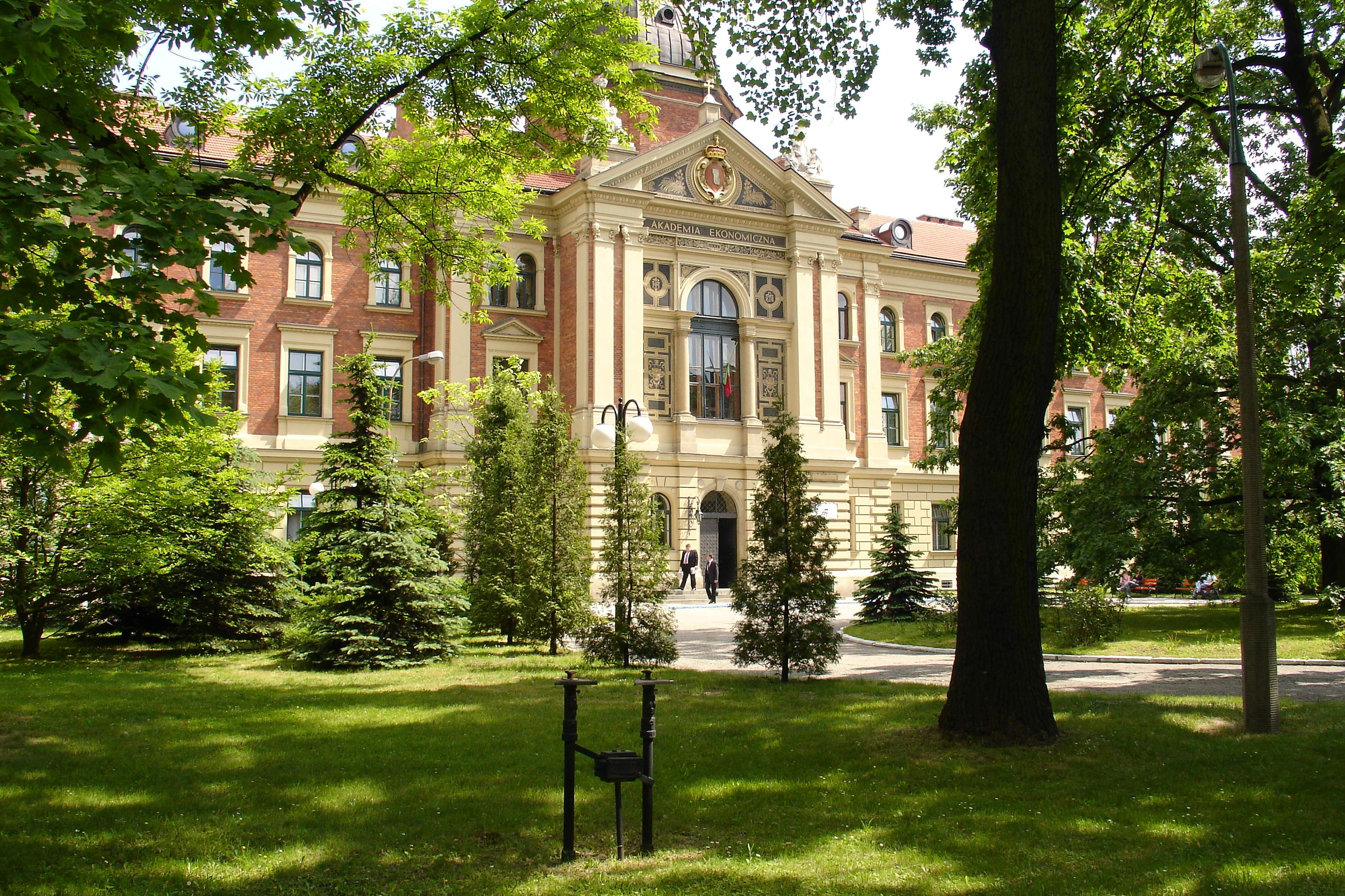 The oldest and recently newly renovated building of Cracow University of Economics.